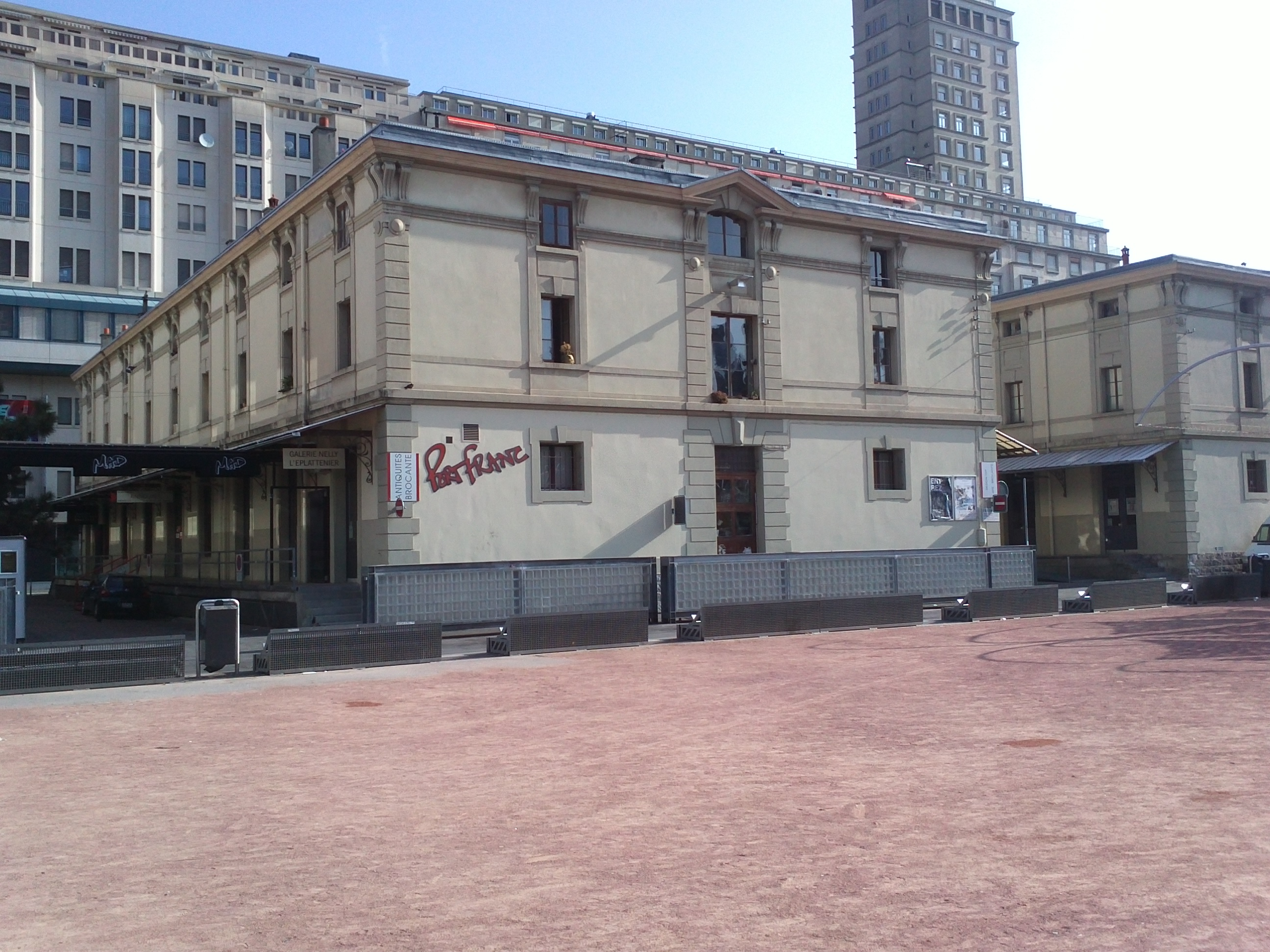 Former warehouse of Port Franc from the Société des entrepôts de Lausanne, now converted into shops in the sector of Flon and former goods station of the same name.